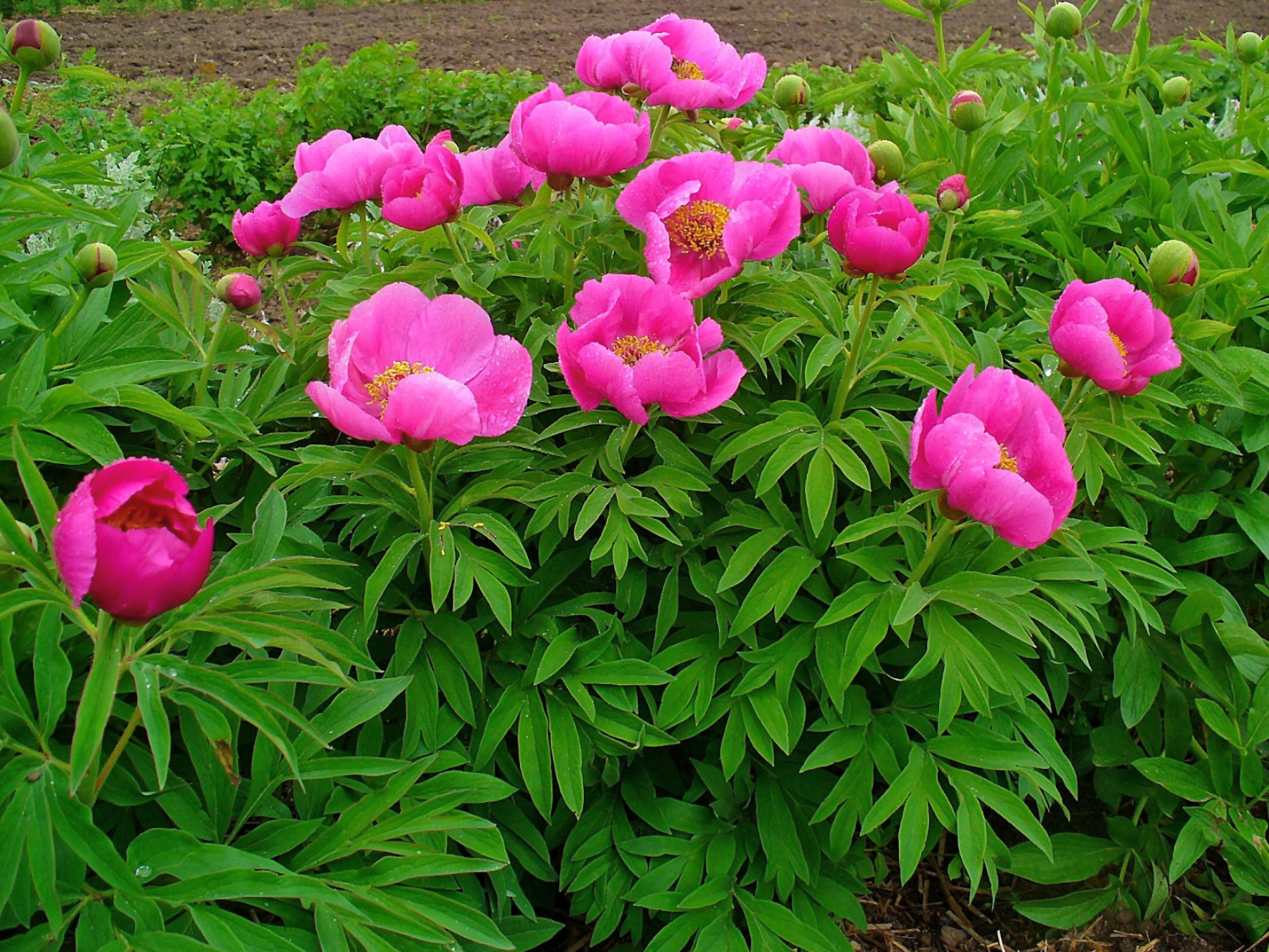 Paeonia officinalis, Paeoniaceae, European peony, Common peony, habitus.